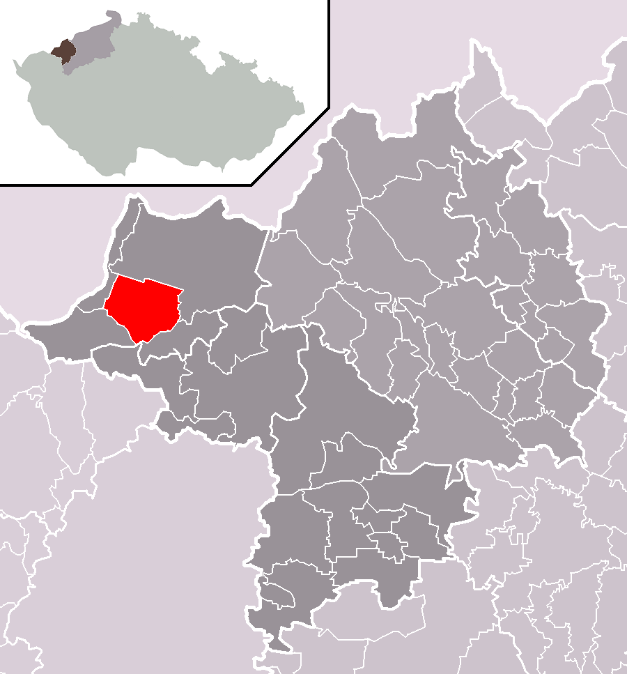 Location of Kovářská municipality within Chomutov District and administrative area of Kadaň as a Municipality with Extended Competence.